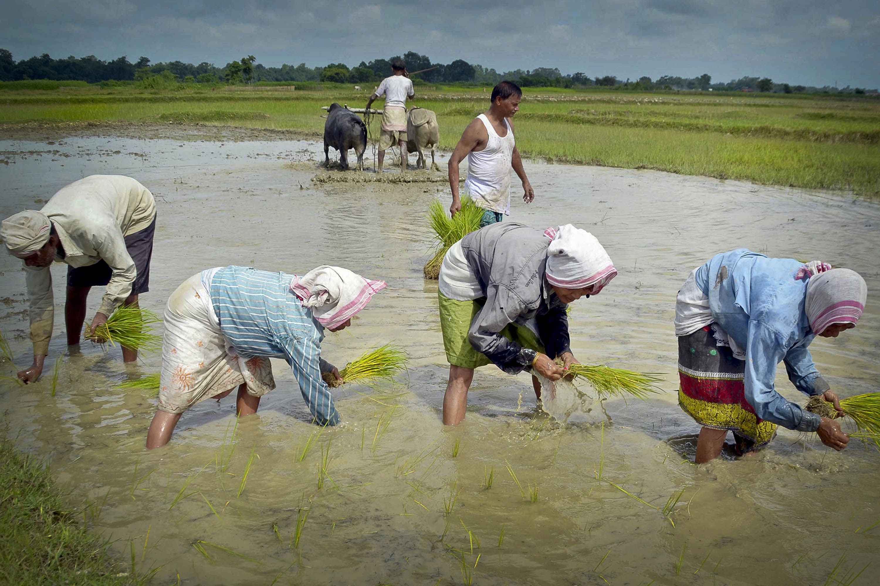 Assamese women busy in planting paddy seedlings in their agricultural field in Pahukata village in Nagaon district of Assam, India .